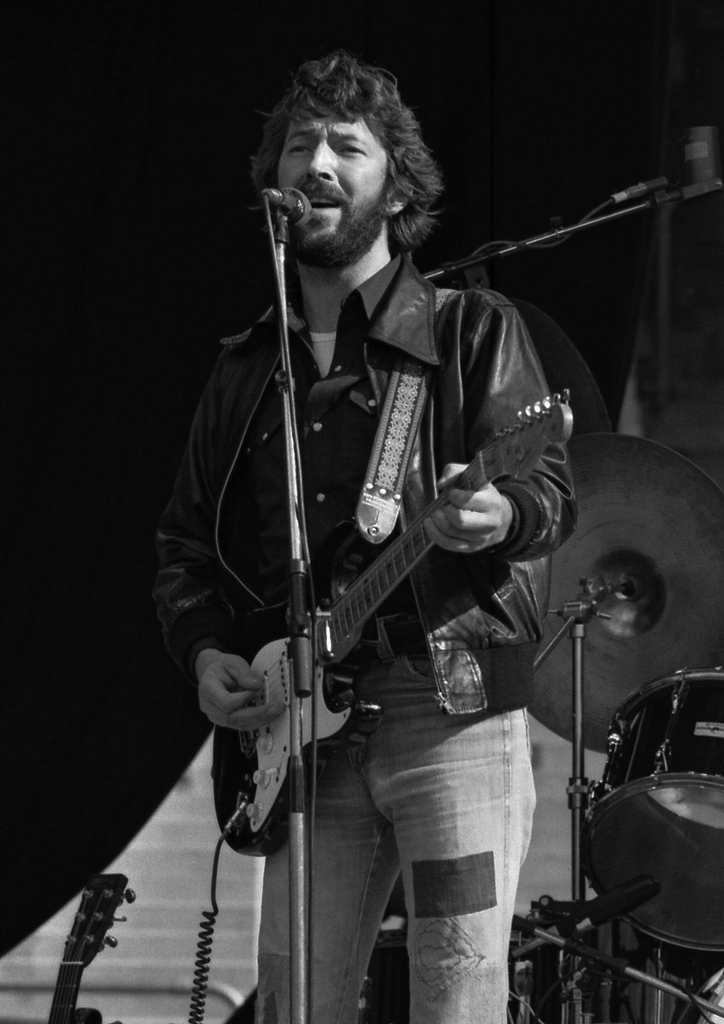 Eric Clapton performing in Amsterdam-- June 23, 1978